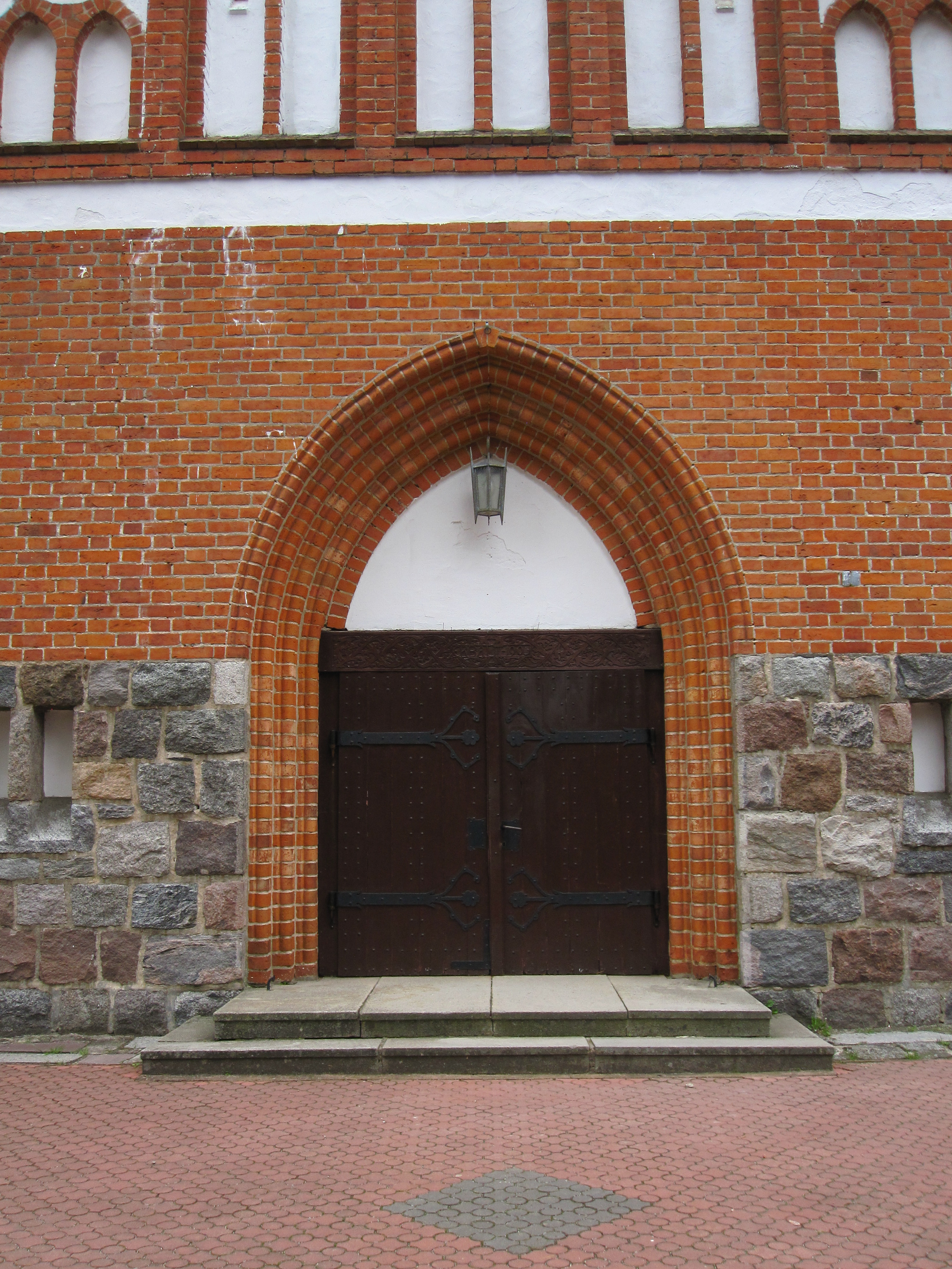 Church of Our Lady of Gietrzwałd in Kociołek Szlachecki